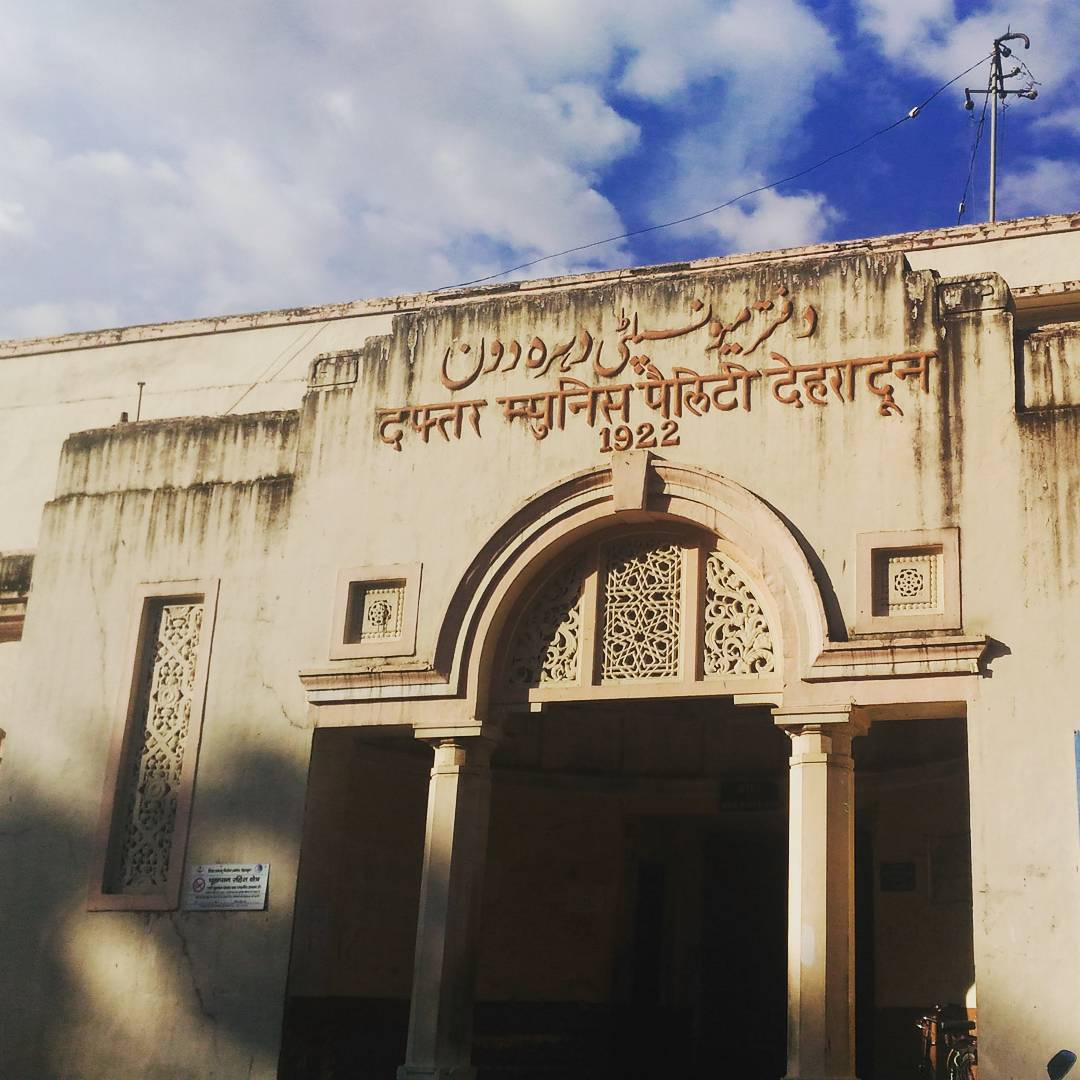 This is a picture of the municipality office of Dehradun City (Urban), taken in August 2016. The municipality is a Municipal Corporation located at New Road, near Doon Hospital, Dehradun, Uttarakhand 248001